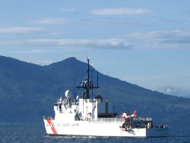 USCGC Campbell WMEC-909, surrounded by the lush green mountains of Hondouras.